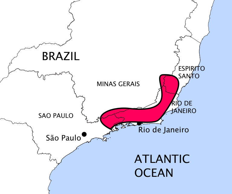 Distribution of Schlumbergera based on McMillan, A.J.S.; Horobin, J.F. (1995) Christmas Cacti : The genus Schlumbergera and its hybrids, p/b edition, Sherbourne, Dorset: David Hunt, ISBN 978-0-9517234-6-3, p. 11